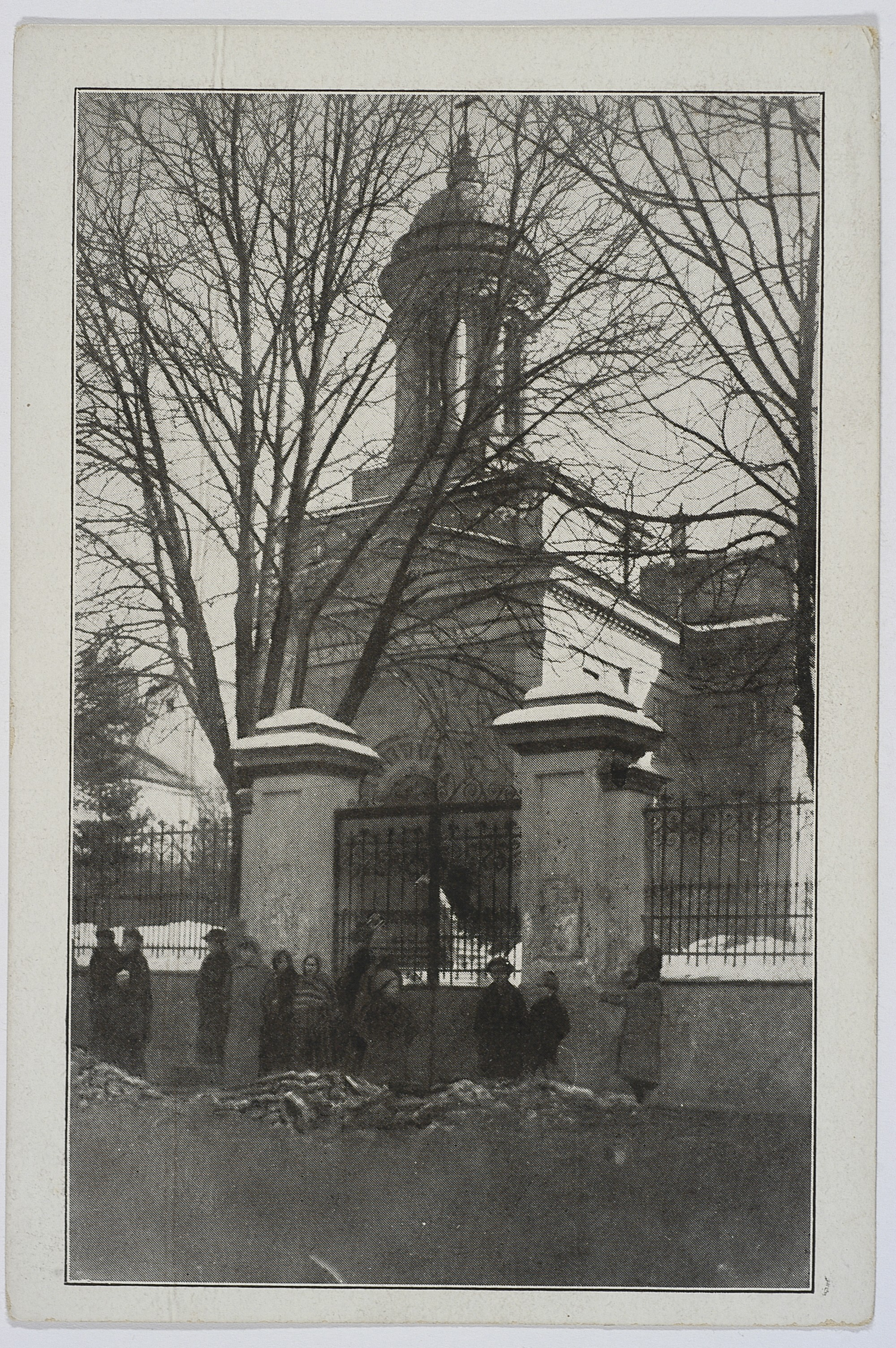 Lutheran Church in Miensk